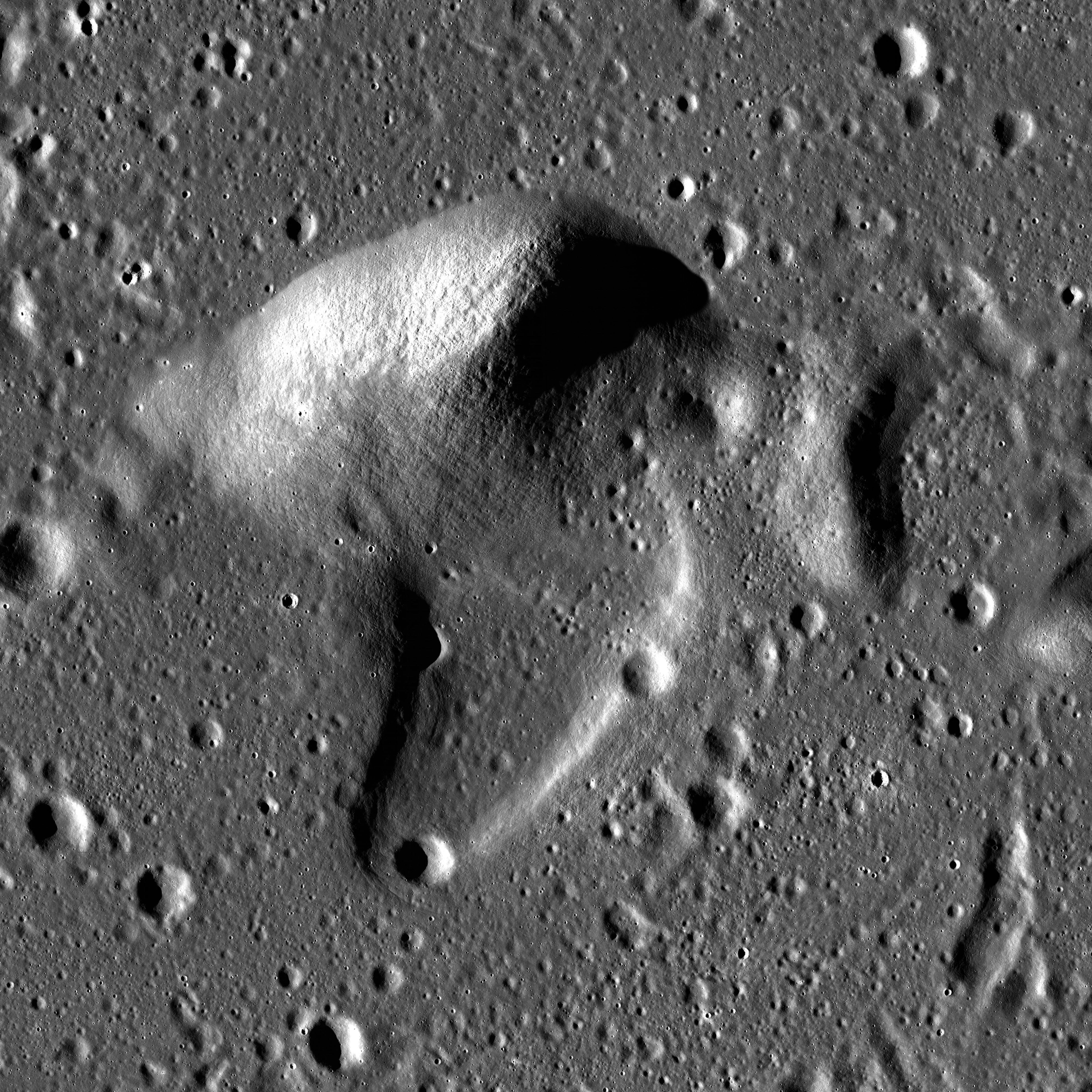 Small (10 km) "crater" Fedorov (a map) on the Moon, on the border of Mare Imbrium and Oceanus Procellarum. Centered at 28.30°N, 322.95°E (according to JMARS). Photo by Lunar Reconnaissance Orbiter, made with Narrow Angle Camera 16 July 2009 from altitude 148 km. Sun elevation is 12.6°. Width of the photo is 14 km, north is up.